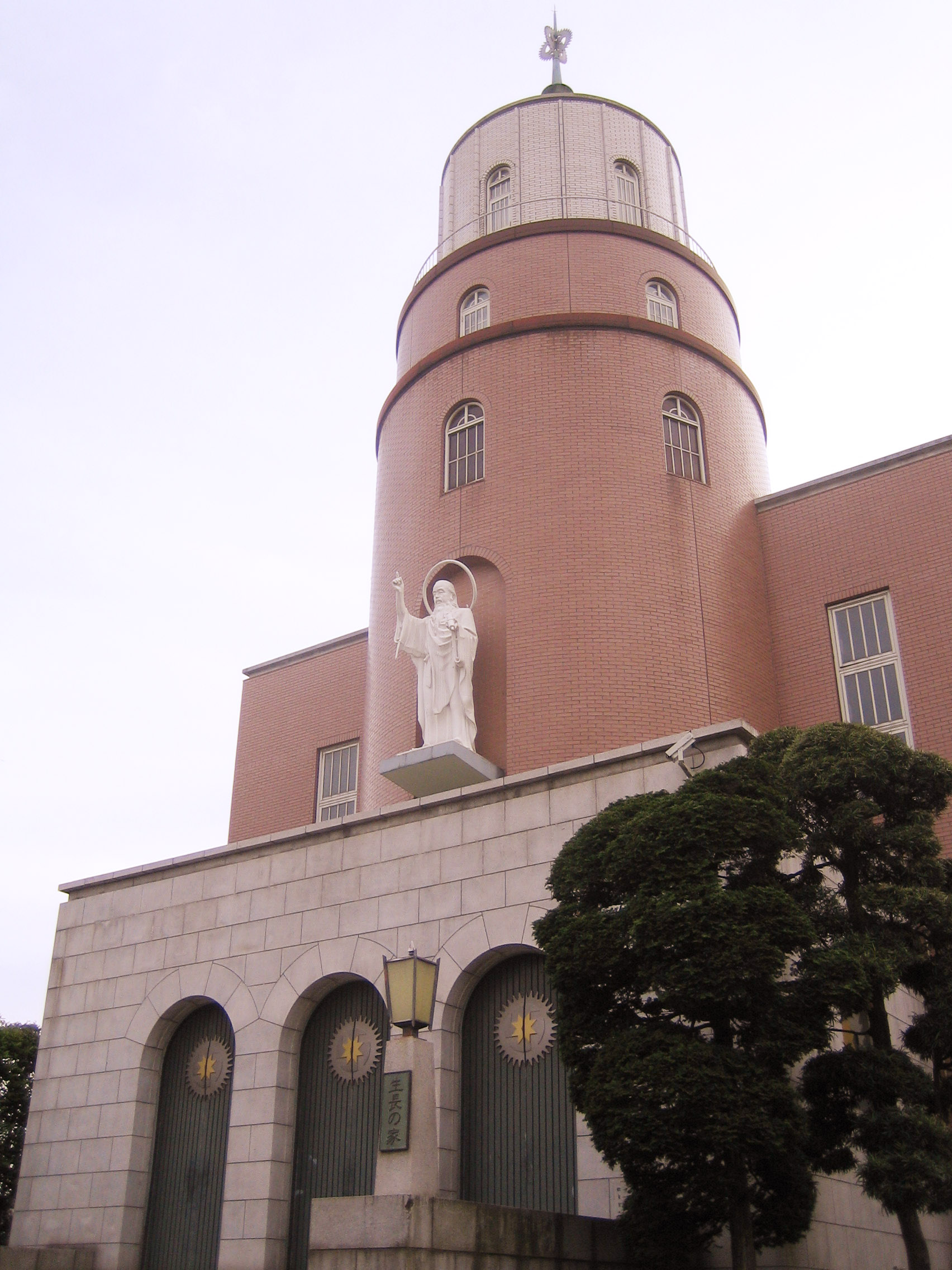 Seicho-No-Ie (生長の家), in Shibuya, Tokyo, Japan